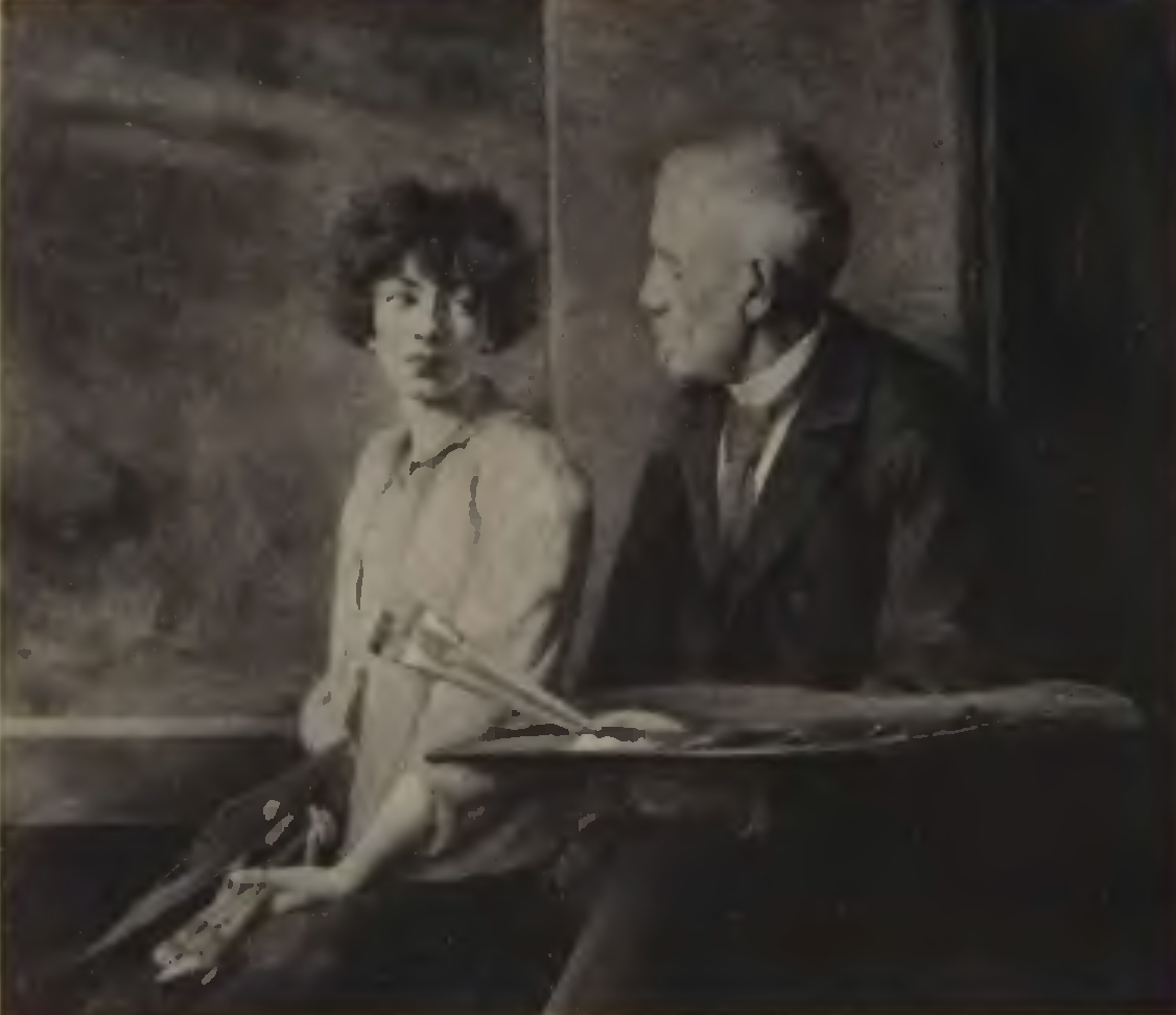 Josefina (Pepa) Mařáková: Self-portrait with father Julius Mařák (1897)